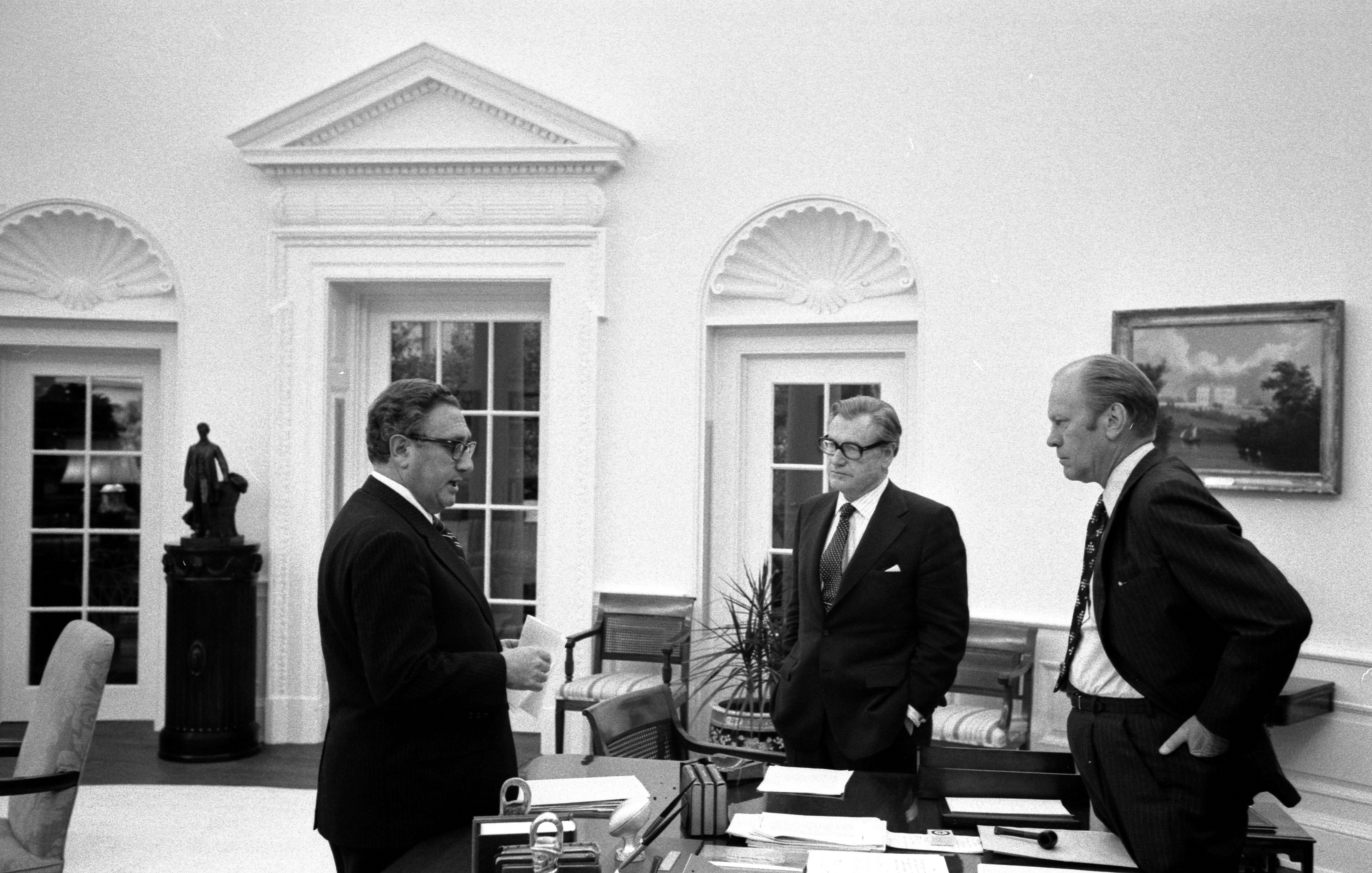 President Ford meets in the Oval Office with Secretary of State Henry A. Kissinger and Vice President Nelson A. Rockefeller to discuss the American evacuation of Saigon, Oval Office, White House, Washington DC.